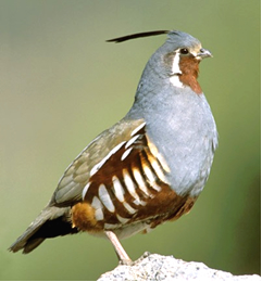 Mountain Quail (Oreortyx pictus) Credit: USFWS